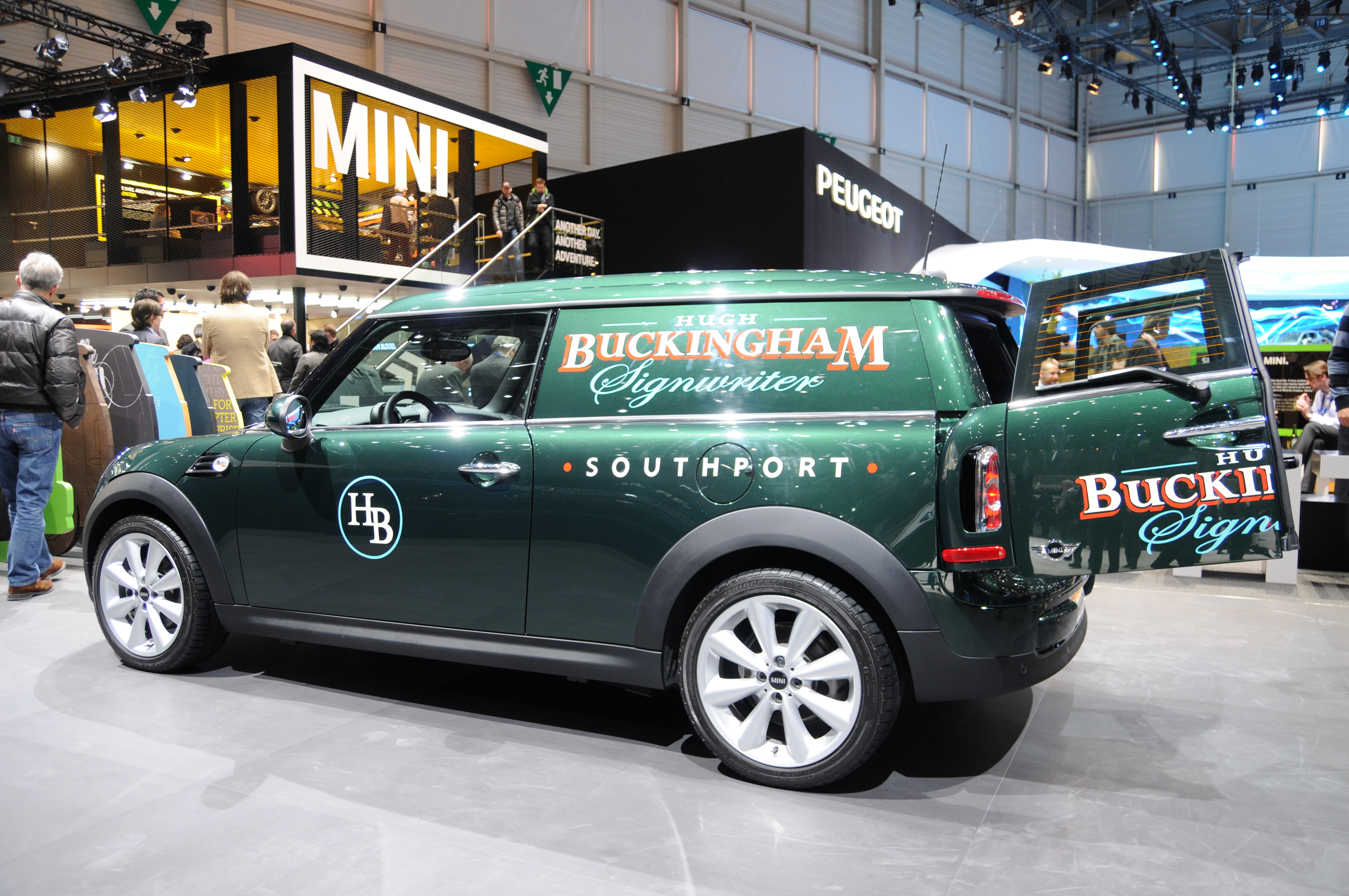 Geneva Motor Show 2012 (photos taken on the second press day)